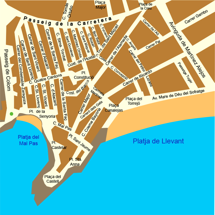 Benidorm's Old Town, it's also called El Castillo by people from Benidorm